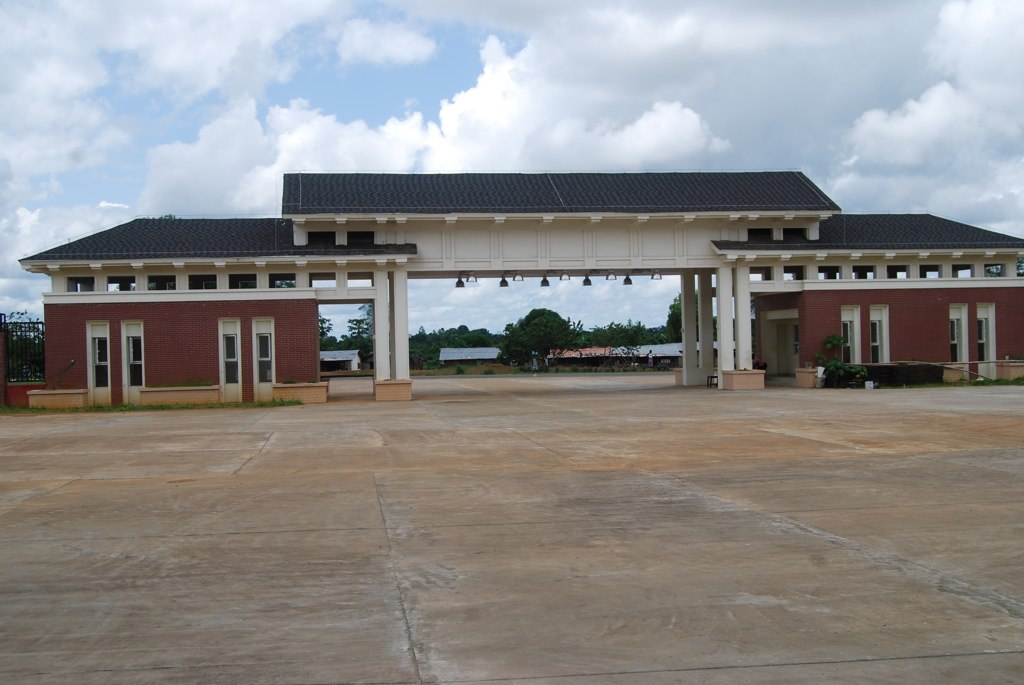 University of Liberia - Fendel Campus